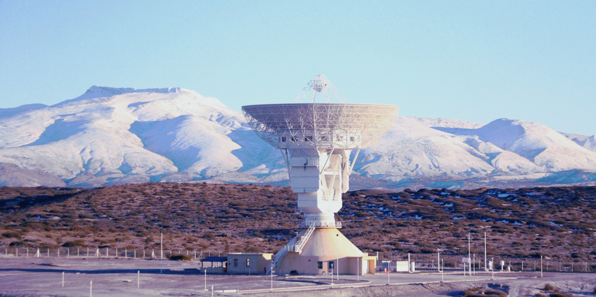 The main antenna of the deep space ground station of China in the Neuquén province, Argentina